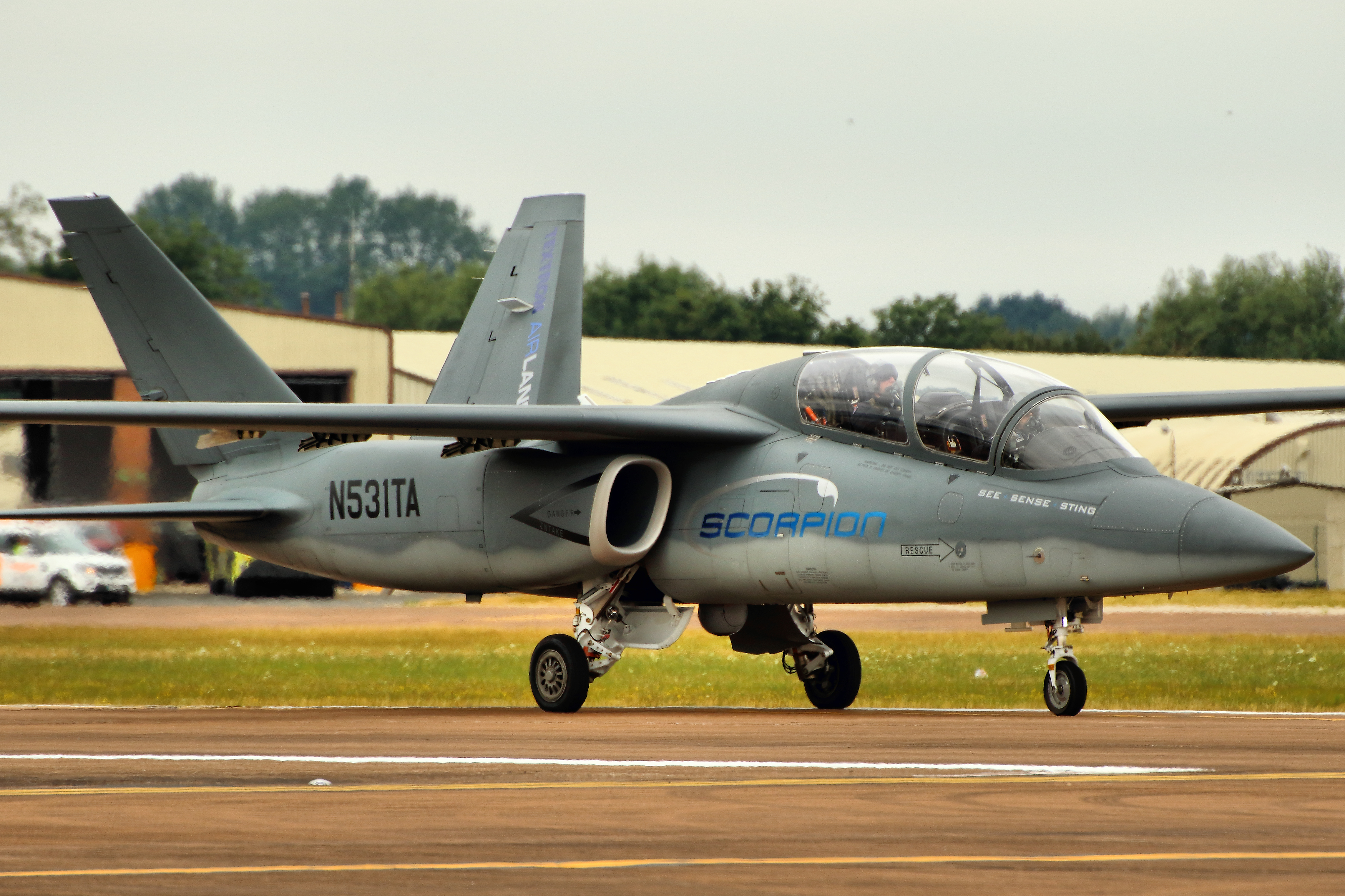 Textron Scorpion - RIAT 2015